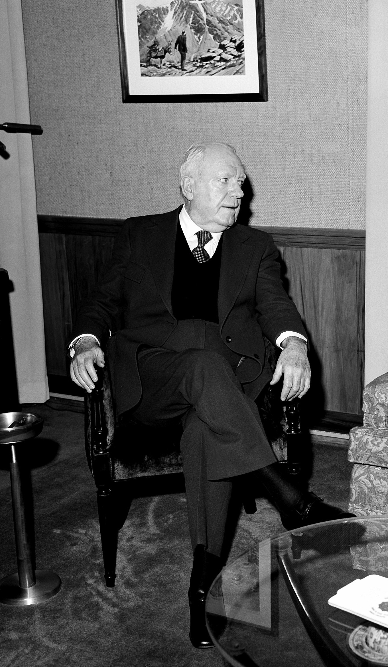 Actor Pat O'Brien meets with MGEN James A. Wier in Fitzsimons Army Medical Center, Aurora, Colorado, USA.